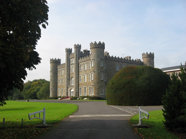 Gormanston Castle, Co. Meath Built in early years of 19th century by Jenico Preston, 12th Viscount Gormanston, on the site of an earlier house. Work stopped in 1820 when his wife died and the overall design was never completed. Sold in late 1940s and now a school run by the Franciscans.